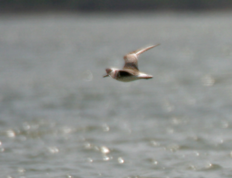 Grey Plover or Black-bellied Plover Pluvialis squatarola in Krishna Wildlife Sanctuary, Andhra Pradesh, India.